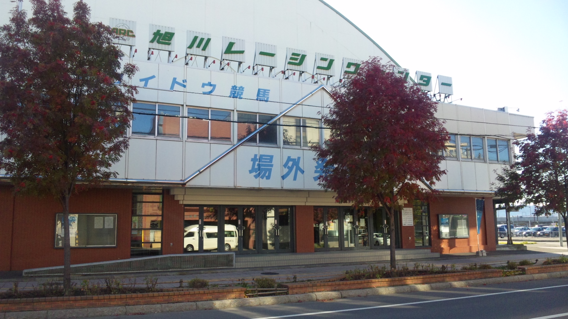 The main entrance of Asahikawa racing center in Hokkaido, Japan